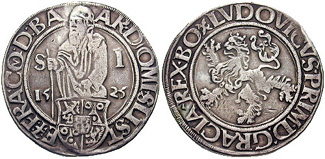 Austria, Stephan Schlick (1487-1526). AR Joachimsthaler (28.58 g). Dated 1525. St. Joachim standing facing, over arms; S-I and date across fields. AR(gento):DOM(i):SLI(c):STE(phanus):E(t):7:FRA(tres):COM(es):D(ominus):BA(ssani) Bohemian lion. LVDOVICVS • PRIM(vs) D(ei): GRACIA REX BO(hemiae) N.B. Ludovicus is Louis II of Hungary and Bohemia Davenport 8142.